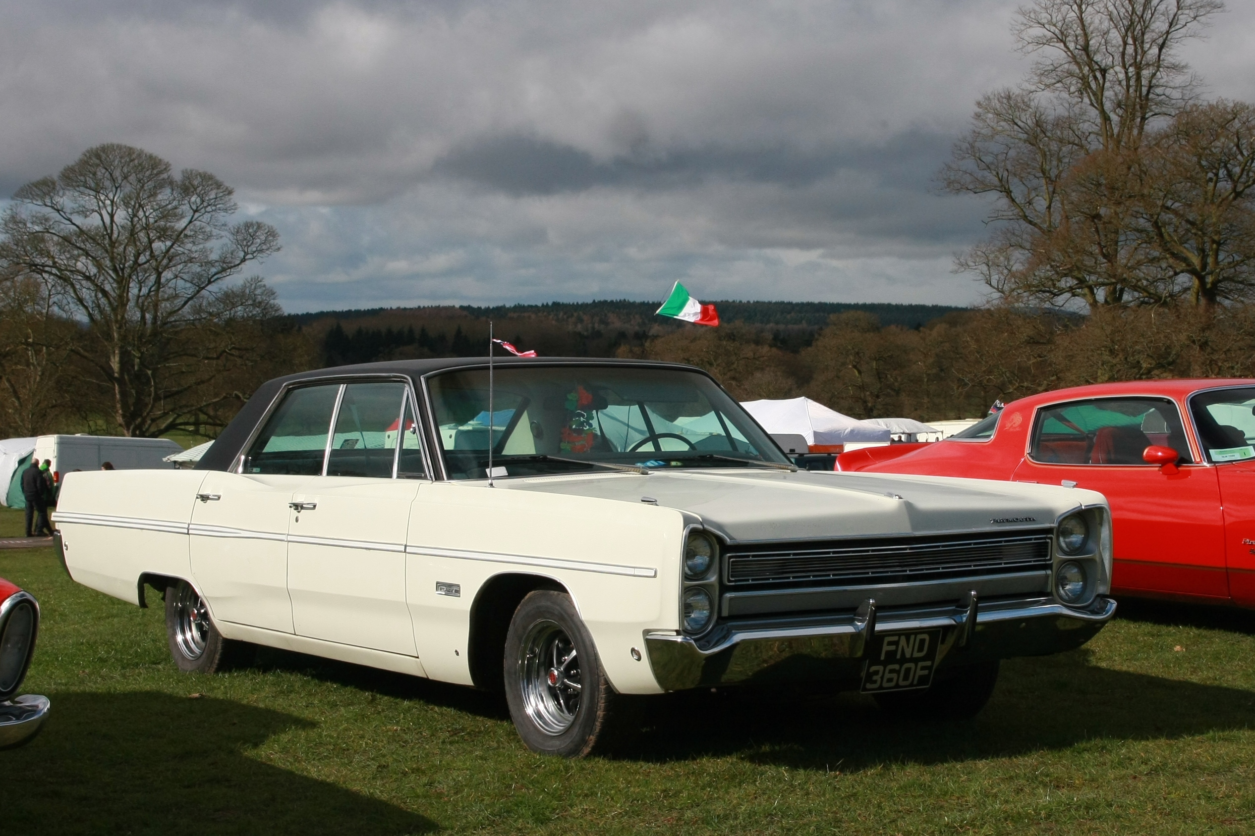 Plymouth Fury (1968) at Weston Park (2016)